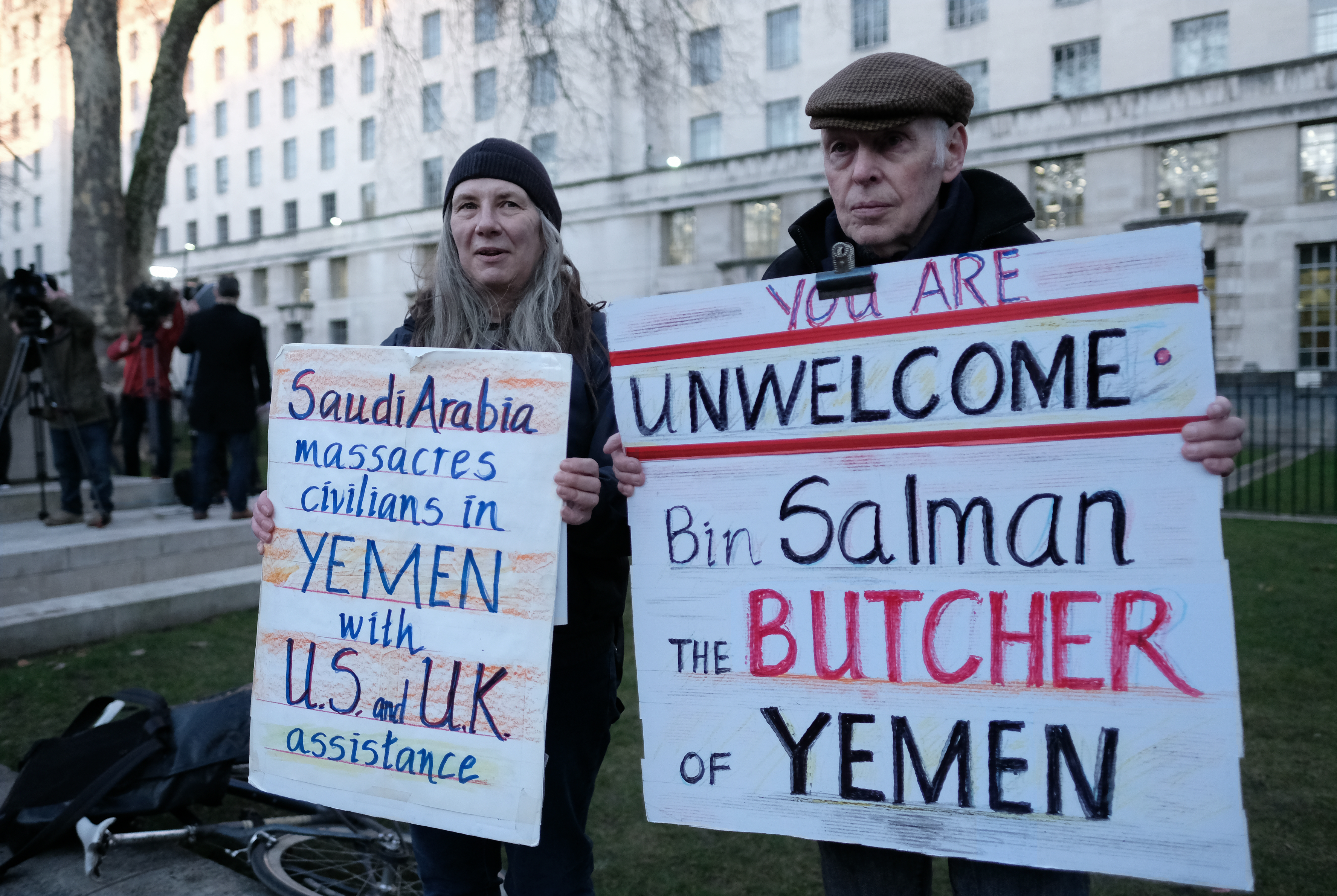 After over one thousand days into the Saudi bombing of Yemen, which is almost entirely UK/US equipped and supported, the first large protest takes place in London of a few hundred people outside Downing Street.